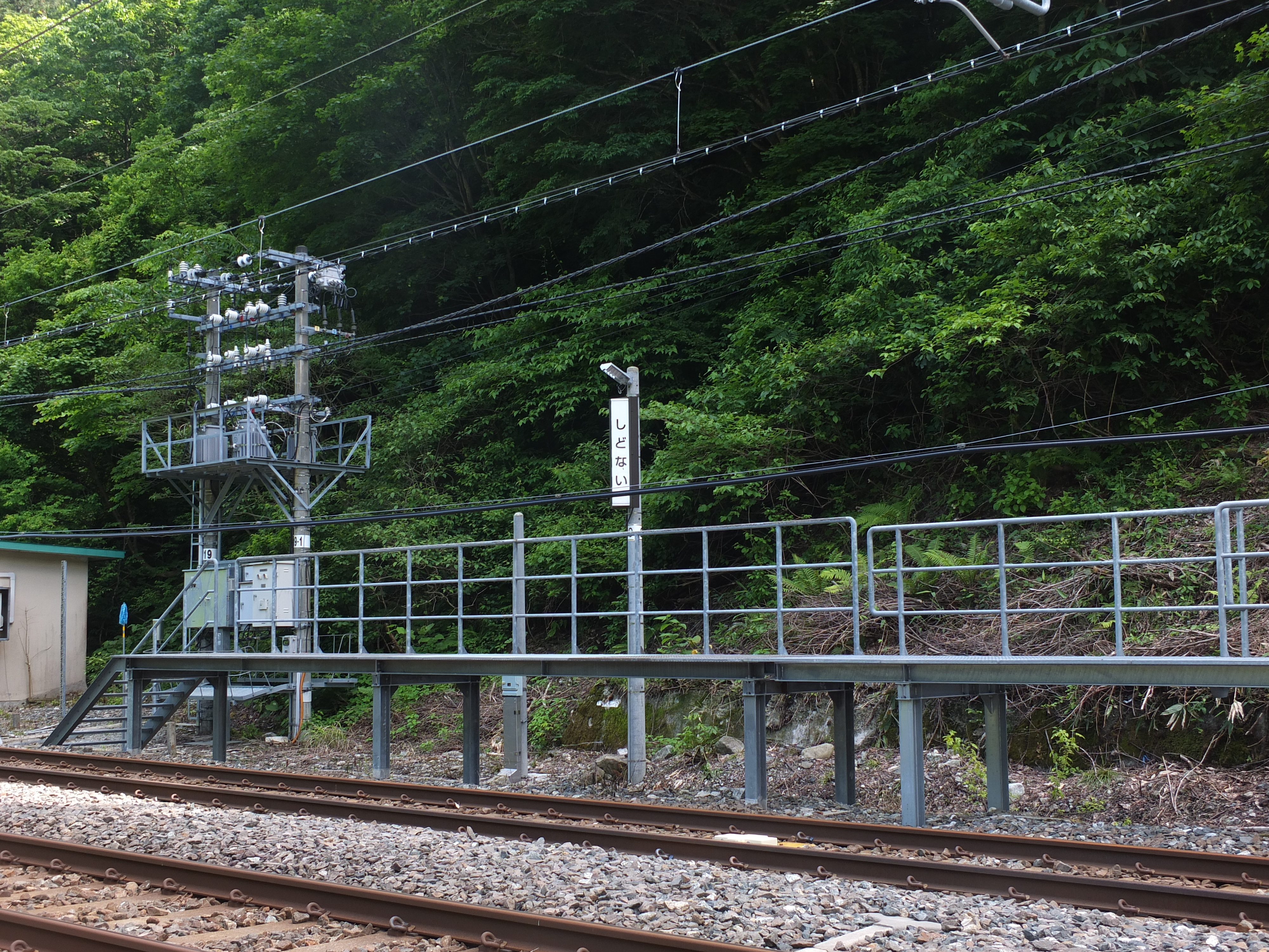 Sidonai passing loop on the JR Tazawako Line in Senboku city, Akita prefecture, Japan